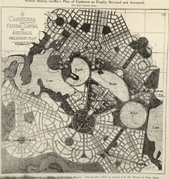 "Canberra, Federal Capital of Australia, Preliminary Plan" - "Walter Burley Griffin's Plan of Canberra as Finally Revised and Accepted"